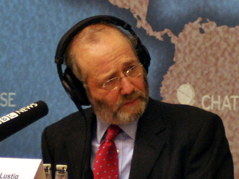 crop of Robin Lustig chairing panel at Chatham House. Levels adjusted.